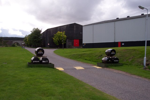 Tomatin Distillery. One of the largest whisky producing distilleries in Scotland - it produces around 12 million litres of whisky a year!